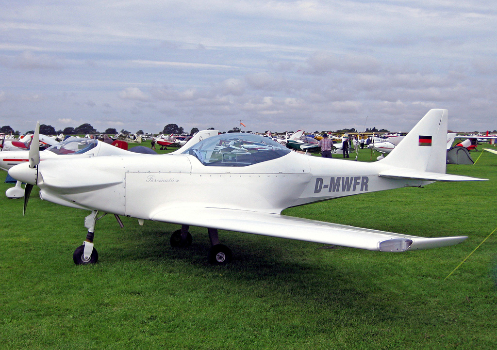 Dallach D4 Fascination D-MWFR at the 2012 LAA Rally at Sywell, England, in 2012